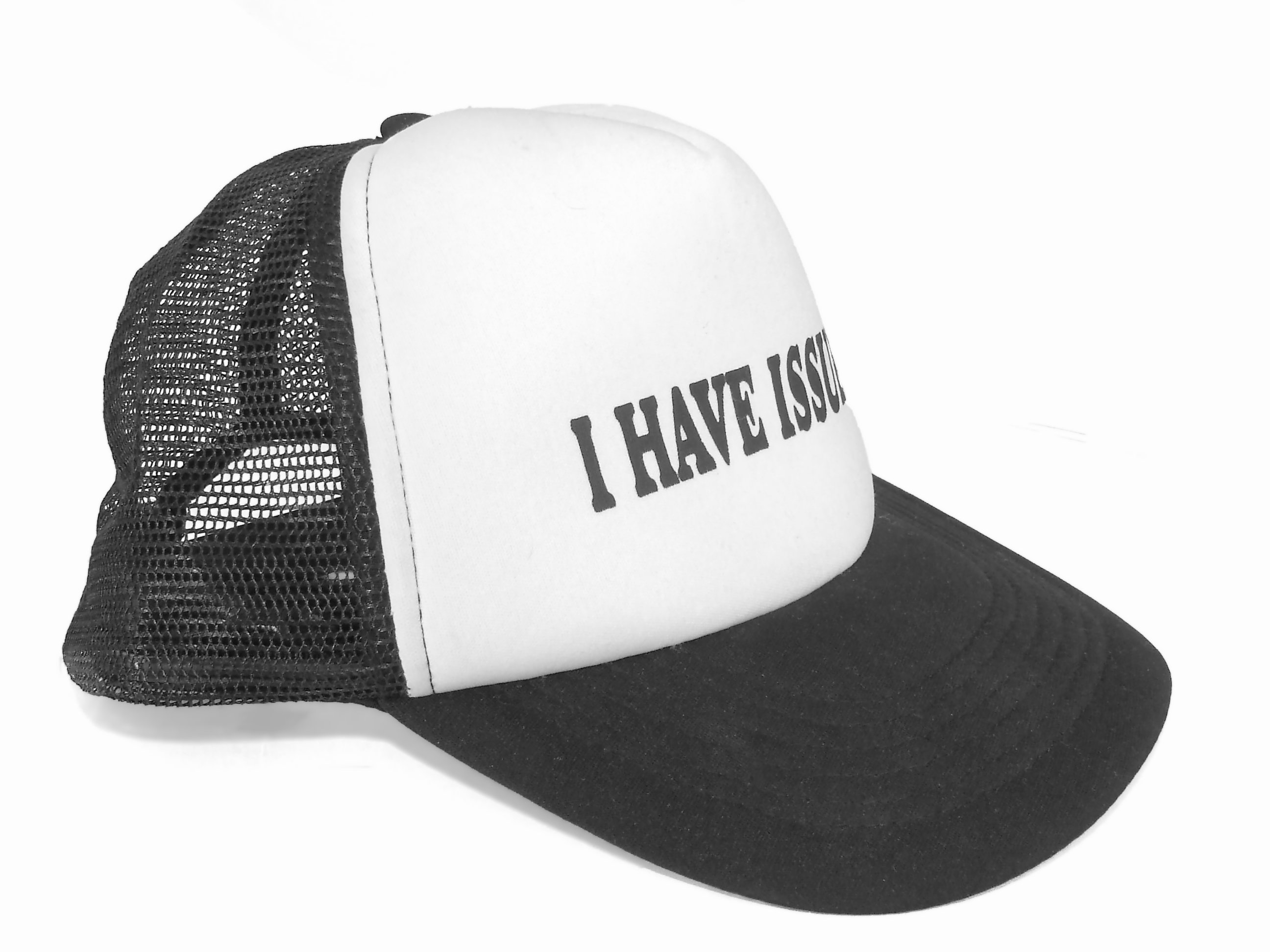 A trucker hat